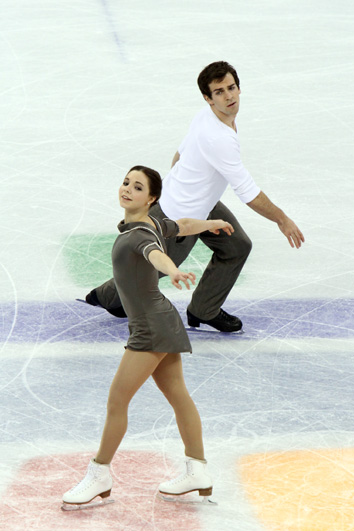 Jessica Dubé and Bryce Davison at the 2010 Winter Olympics.